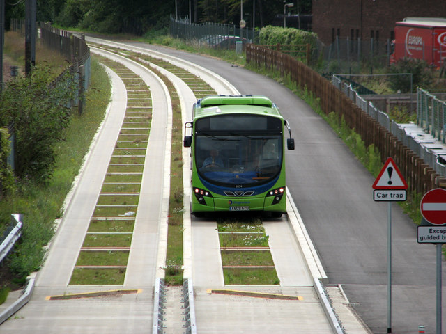 Guided bus from Trumpington, Data from Geograph: Description: On the second day of guided bus services, a single-decker from Trumpington nears the end of the southern part of the concrete Brio track. It will shortly pass under Hills Road Bridge (from which this zoom shot was taken) on a normal... more ICBM: 52.188877363395, 0.13347686388506 Location: (about 2 km from) near to Cambridge, Cambridgeshire, Great Britain.